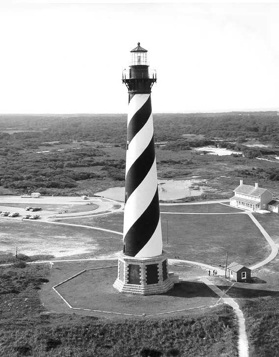 U.S. Coast Guard Archive photo of the Cape Hatteras Lighthouse